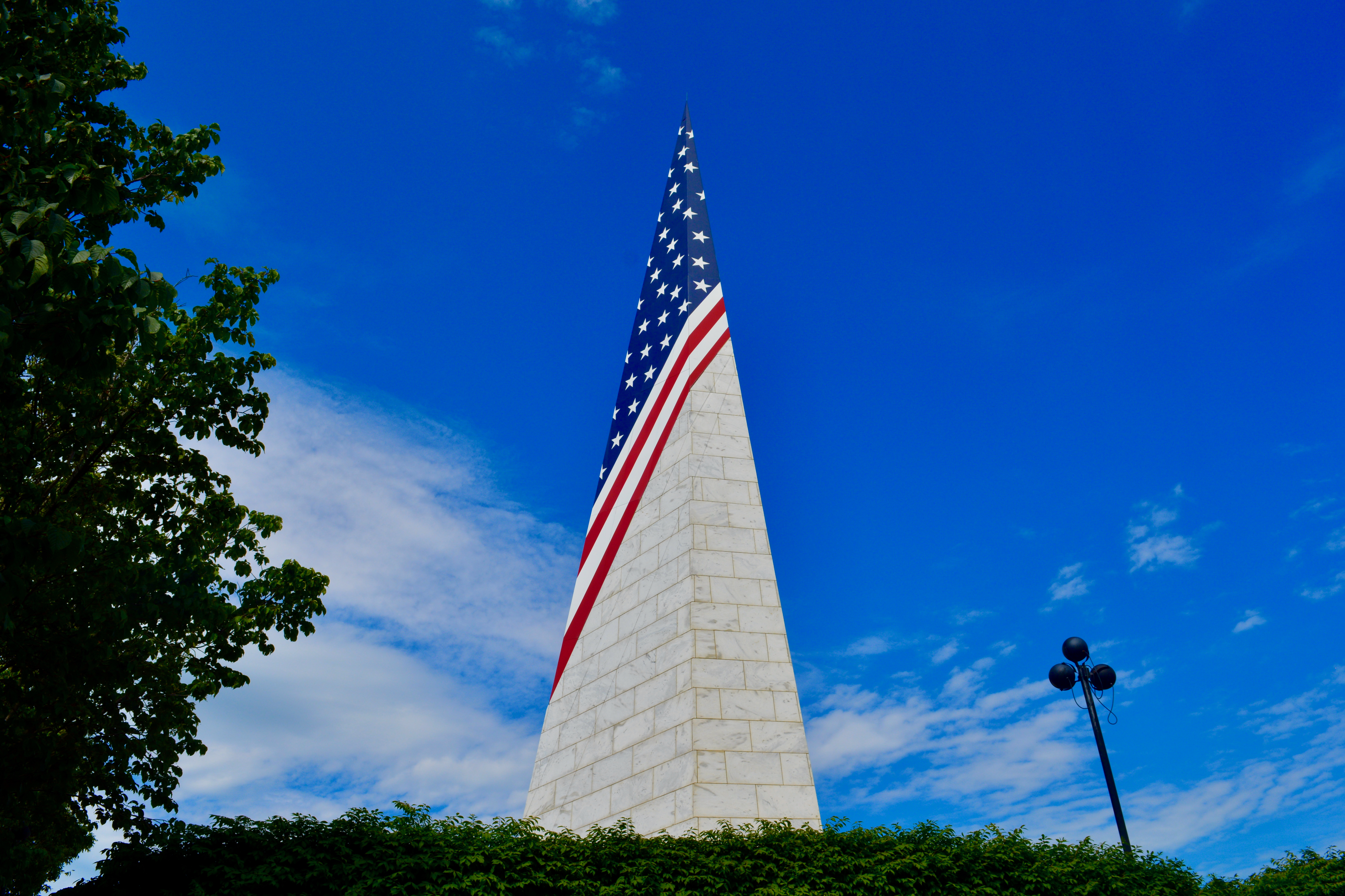 Photo by Joe Maddalone